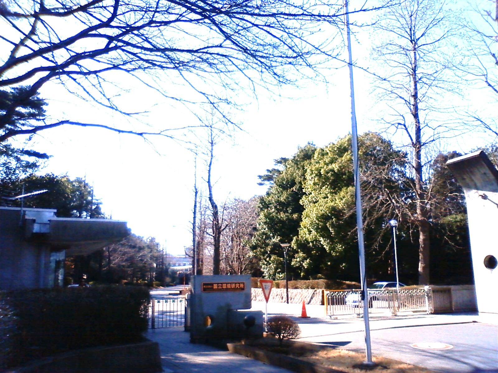 This is the National Institute for Environmental Studies, Japan.